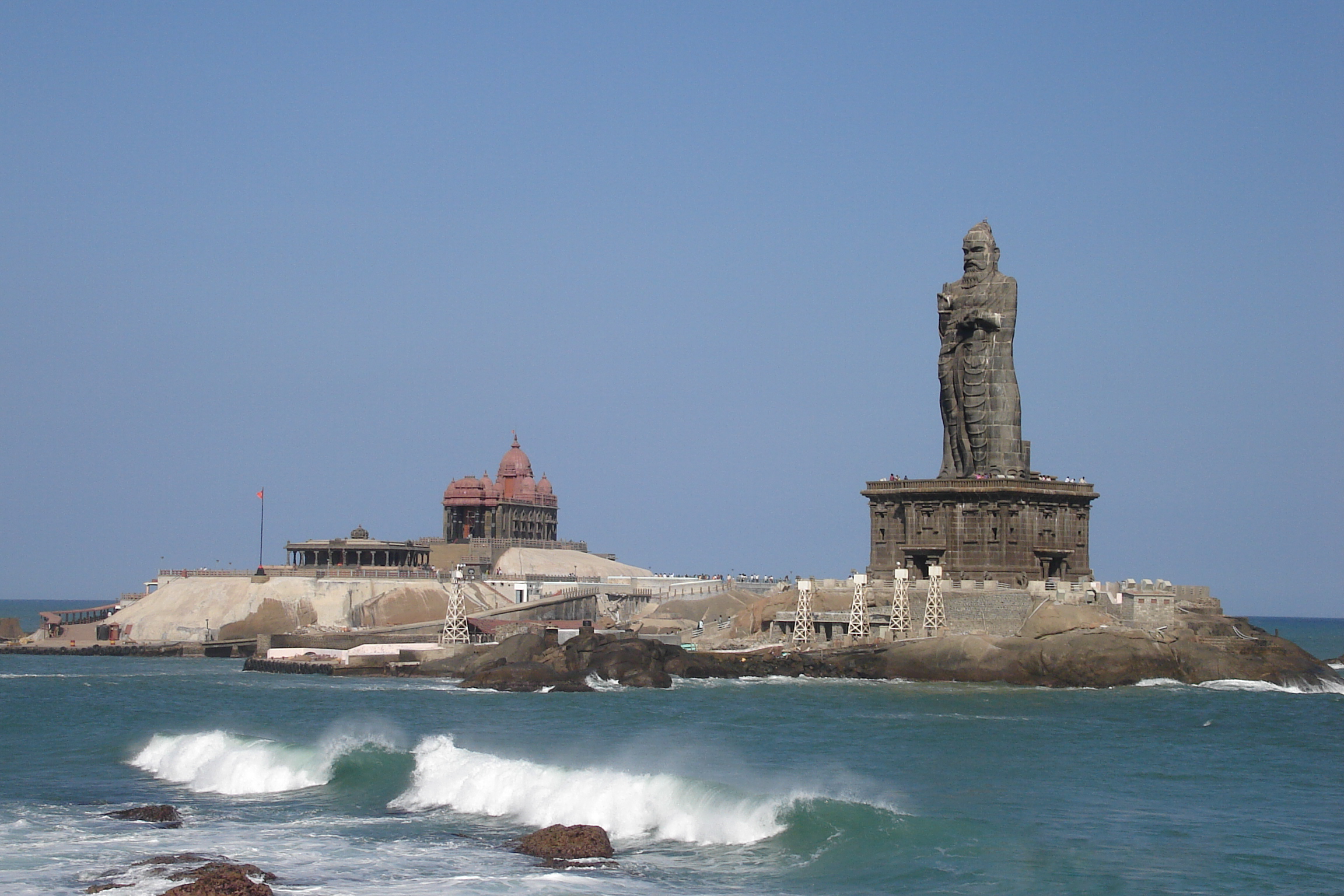 Cape Comorin, South India showing the Statue of Thiruvalluvar and Vivekananda Memorial. It is a tsunami hit area. The tidal waves reach as high as the statue. Hundreds of people(exact number still not known)were washed away.